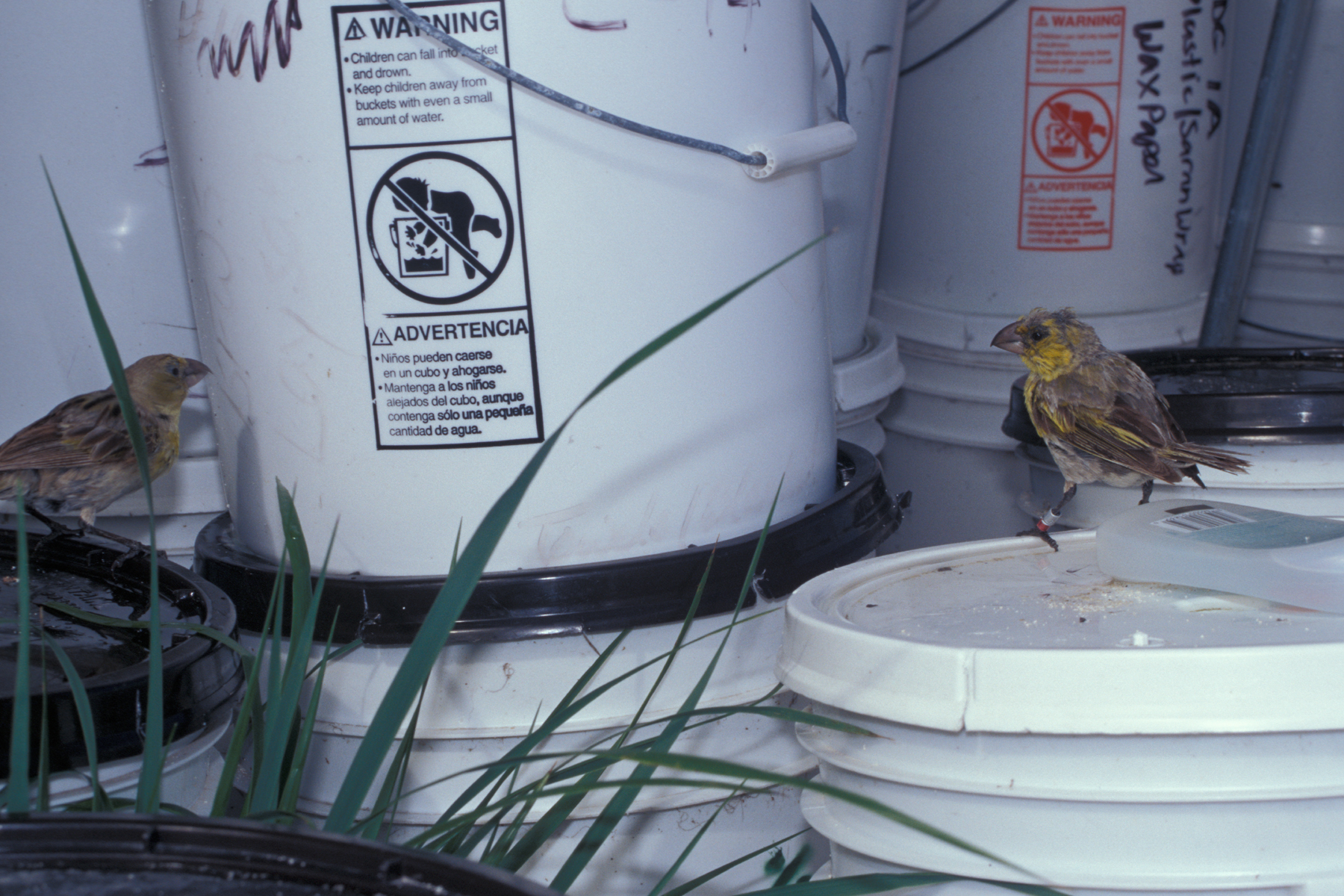 Eragrostis variabilis (with Laysan finch by buckets). Location: Laysan Island, By camp